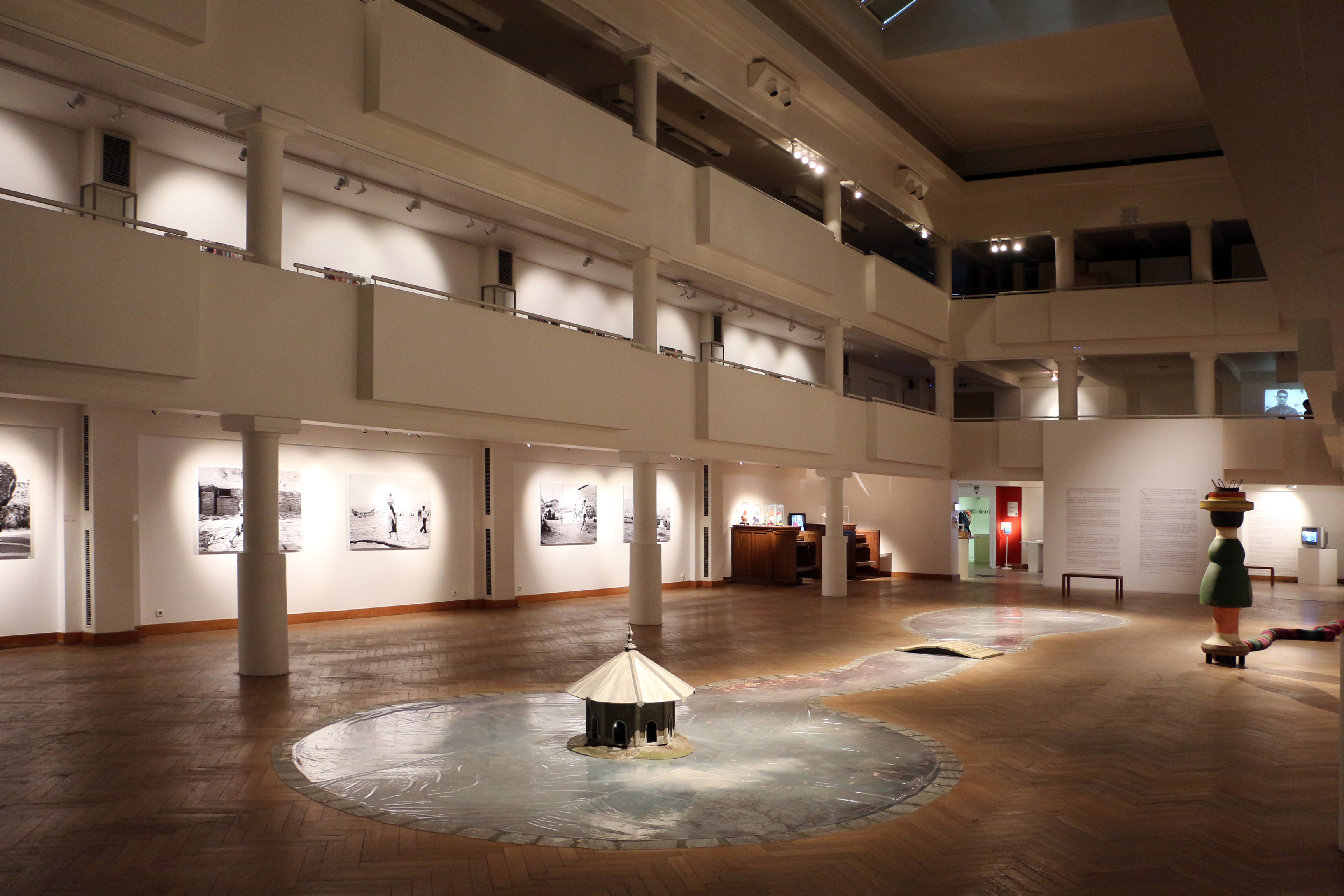 Museum of Ixelles